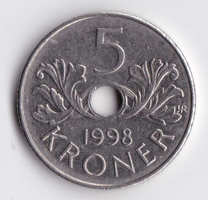 First edition Norwegian 5-krone